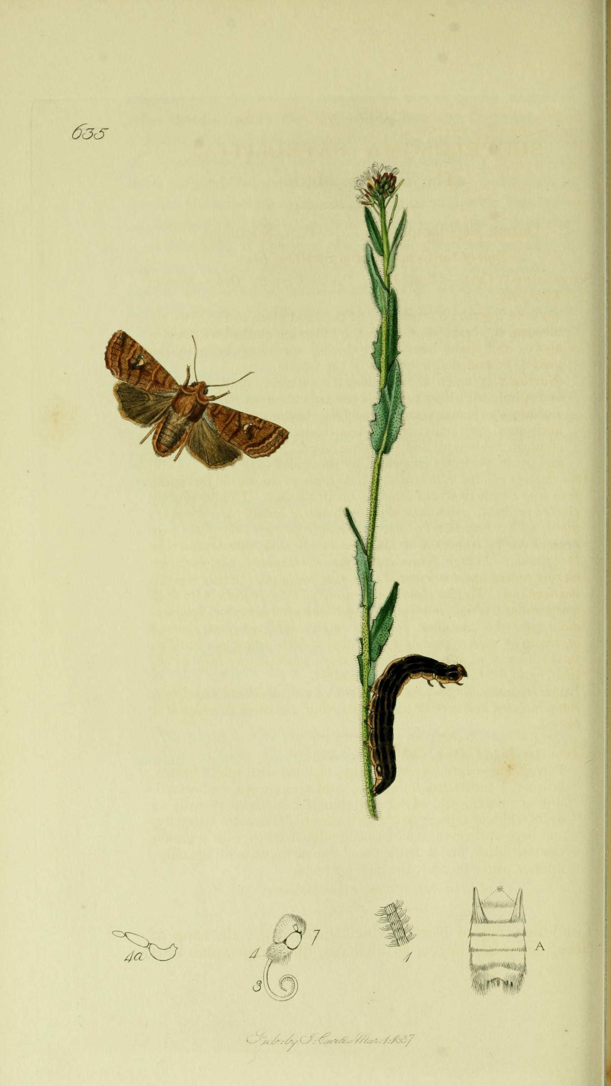 An illustration from British Entomology by John Curtis. Scopelosoma satellitia or Eupsilia transversa (The Satellite Moth).